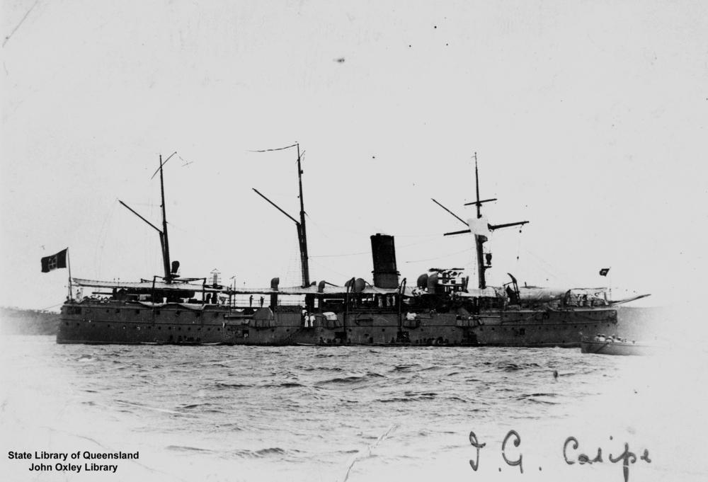 An Italian warship of the Regia Marina, probably the protected cruiser Calabria